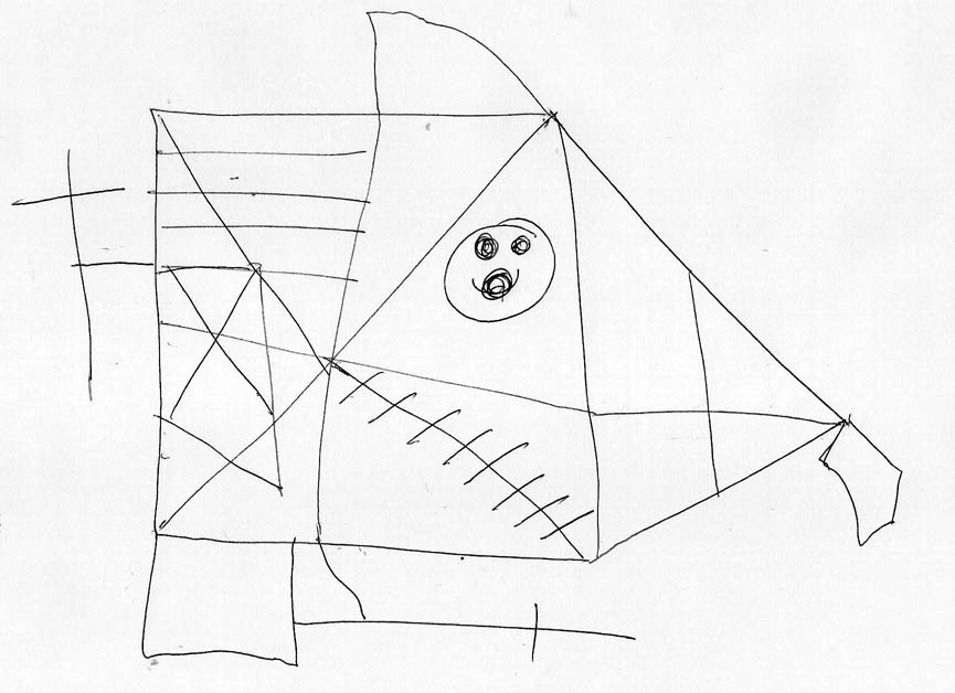 Example of a copy of the rey-osterreith complex figure test performed similarly to that of a child